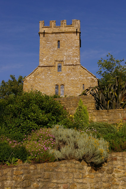 West tower of the demolished church of St Mary Magdalene, West Milton, Dorset, seen from the west